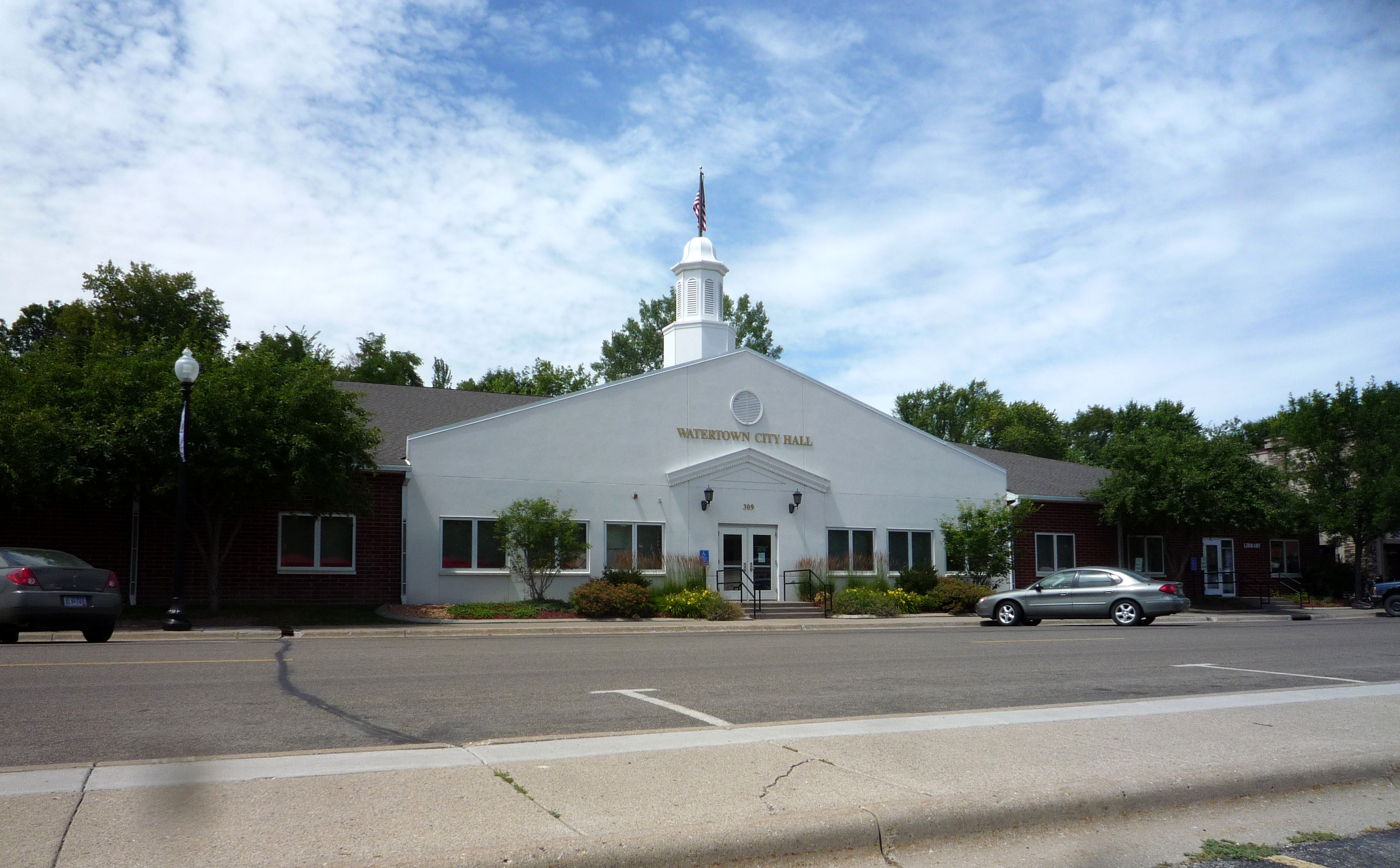 City Hall, Watertown, Minnesota, USA.